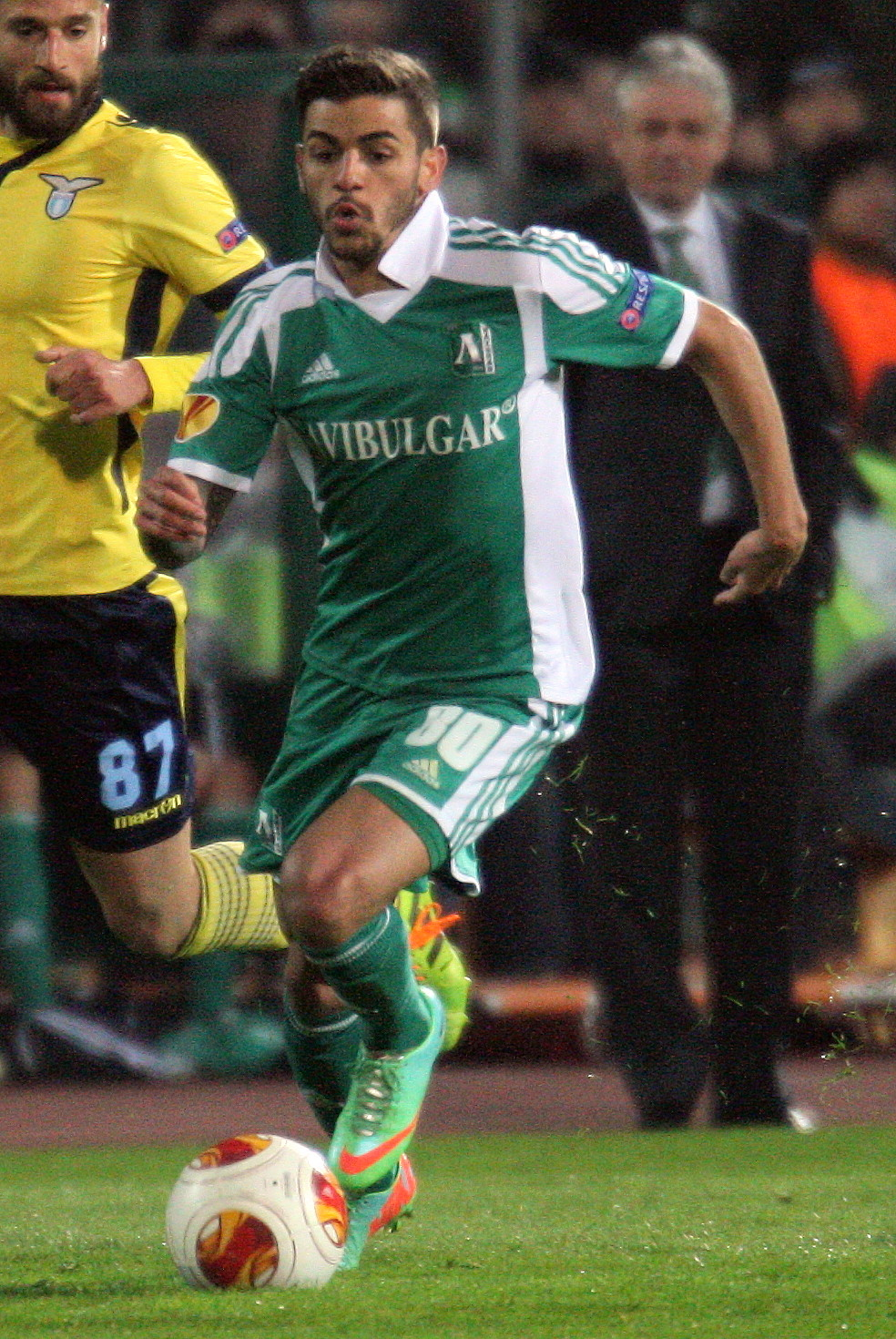 Uilson de Souza Paula Júnior (born 27 April 1989 in São Paulo, Brazil), commonly known as Júnior Caiçara, is a Brazilian footballer who currently plays as a defender for Bulgarian club Ludogorets Razgrad.